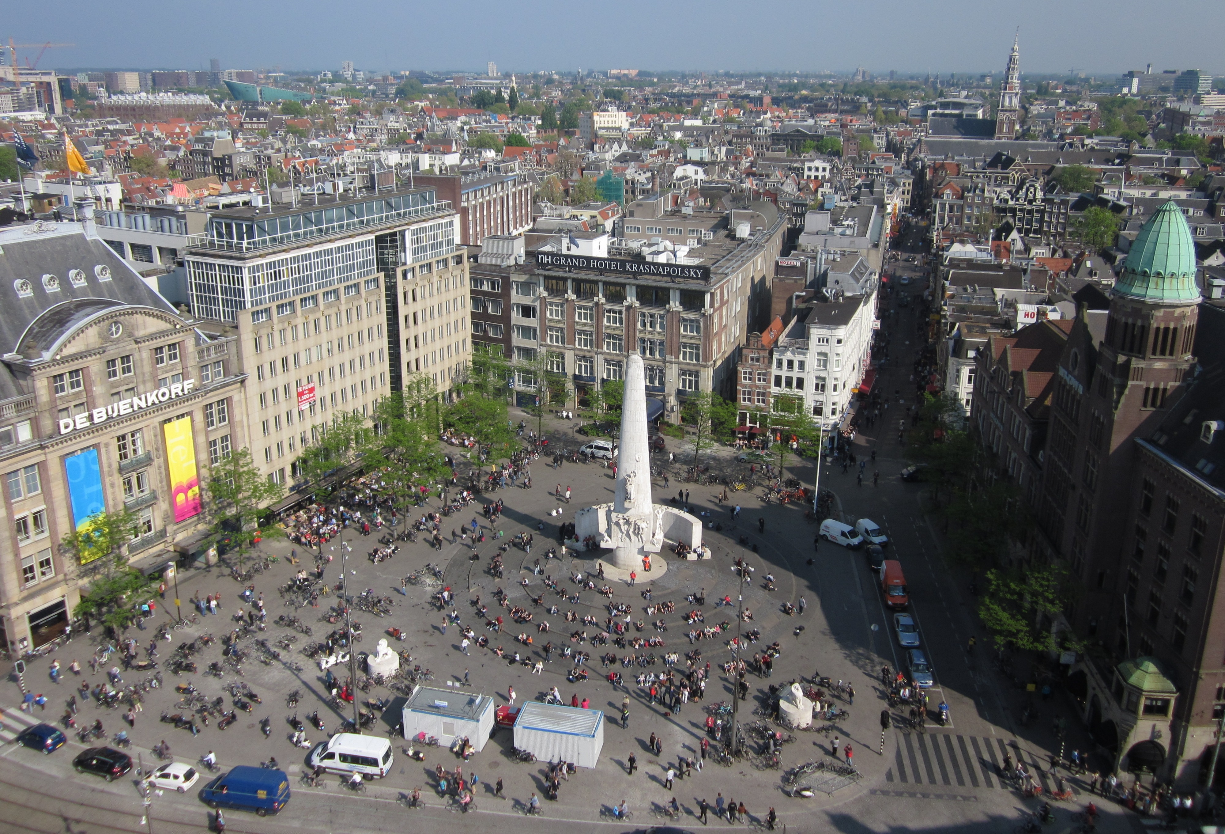 The "Nationaal Monument" in Amsterdam, picture taken from ferris wheel on Dam Square, which was situated there due to a carnival.